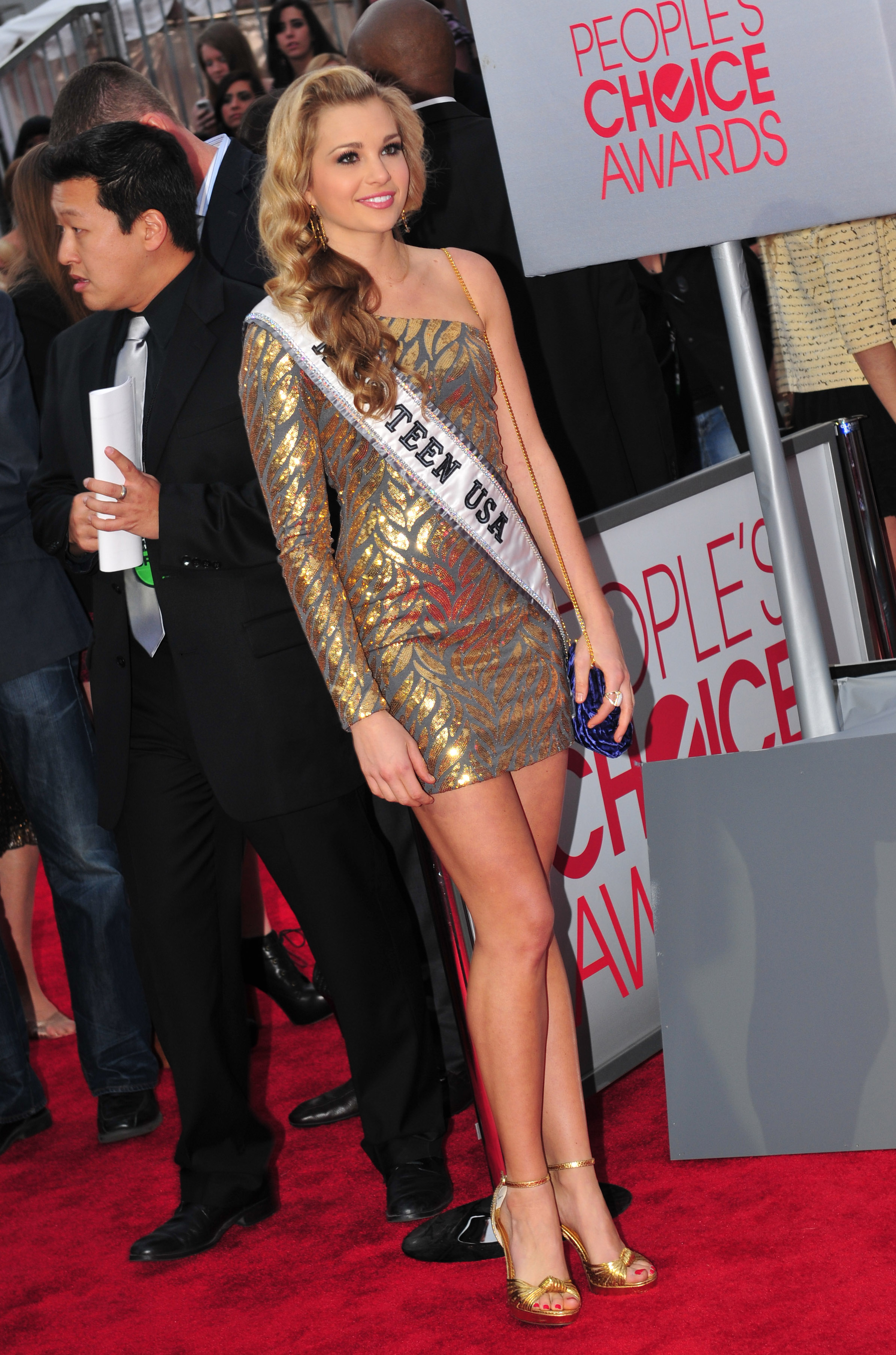 Danielle Doty on the red carpet at the 38th People's Choice Awards on January 11, 2012, at the Nokia Theatre in Los Angeles, California.